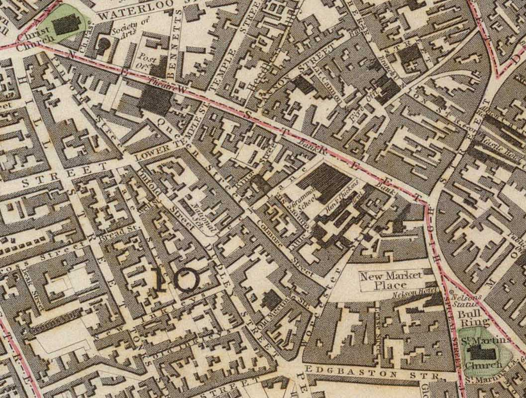 Birmingham England 1839; showing the area now occupied by New Street Station